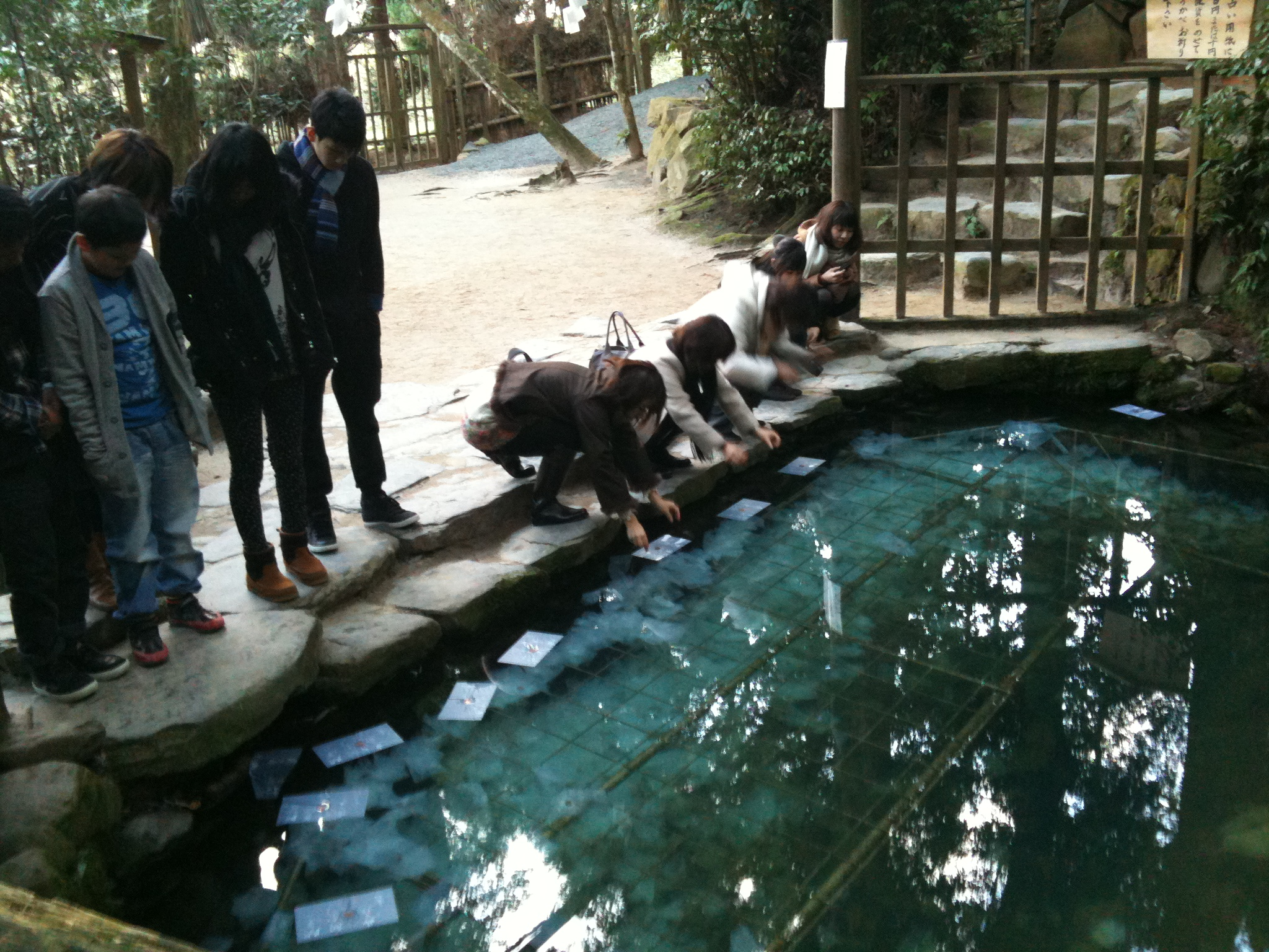 Yaegaki Shrine, in Matsue, Shimane Prefecture, Japon En-musubi; Kojiki; Sunanoo, Kushidana